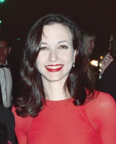 Clark and Bebe Neuwirth at the Governor's Ball following the 1991 Emmy Awards. NOTE: Permission granted to copy, publish, broadcast or post any of my photos, but please credit "photo by Alan Light" if you can. Thanks. Scanned from the original 35MM film negative.